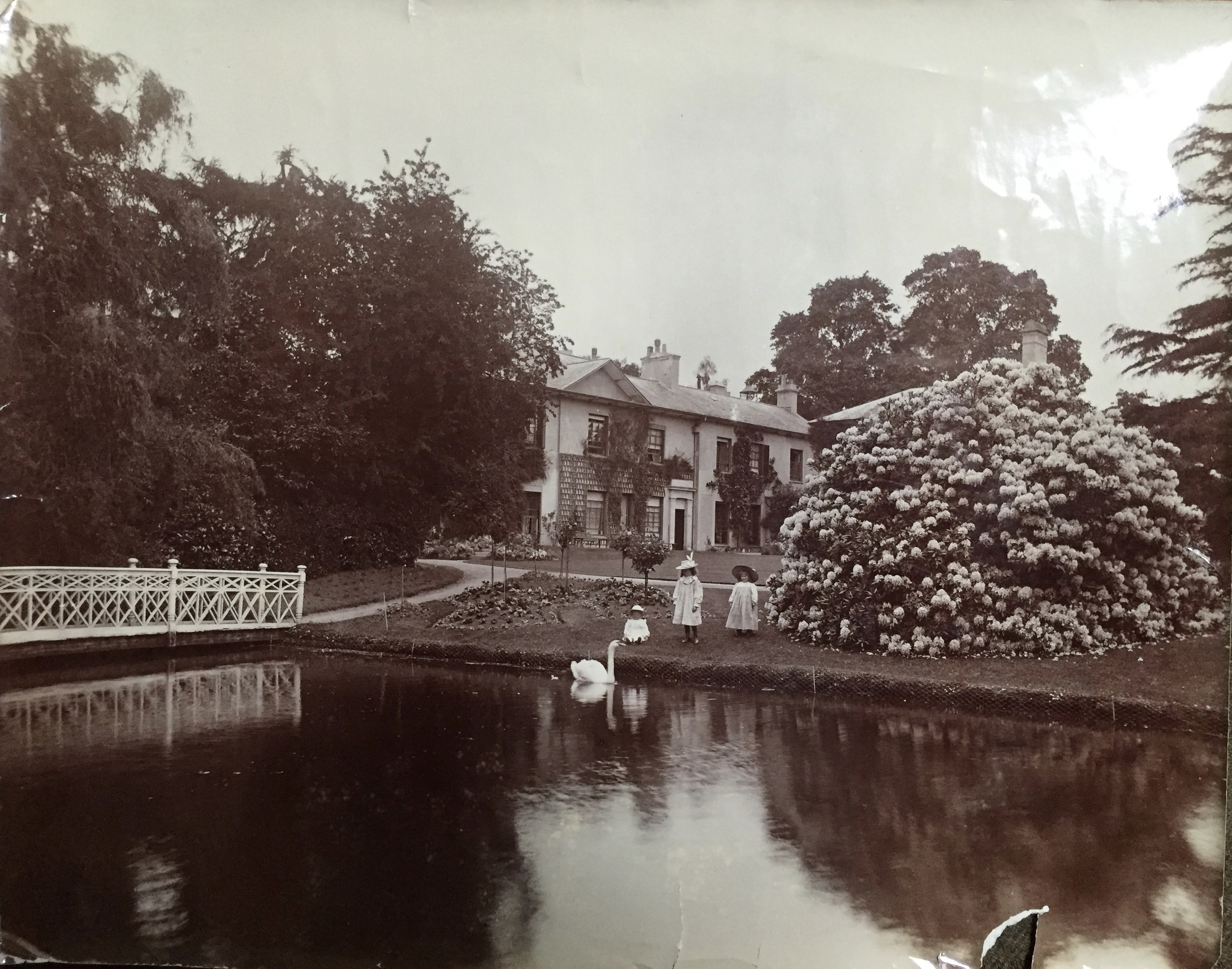 Tone Dale House & Garden